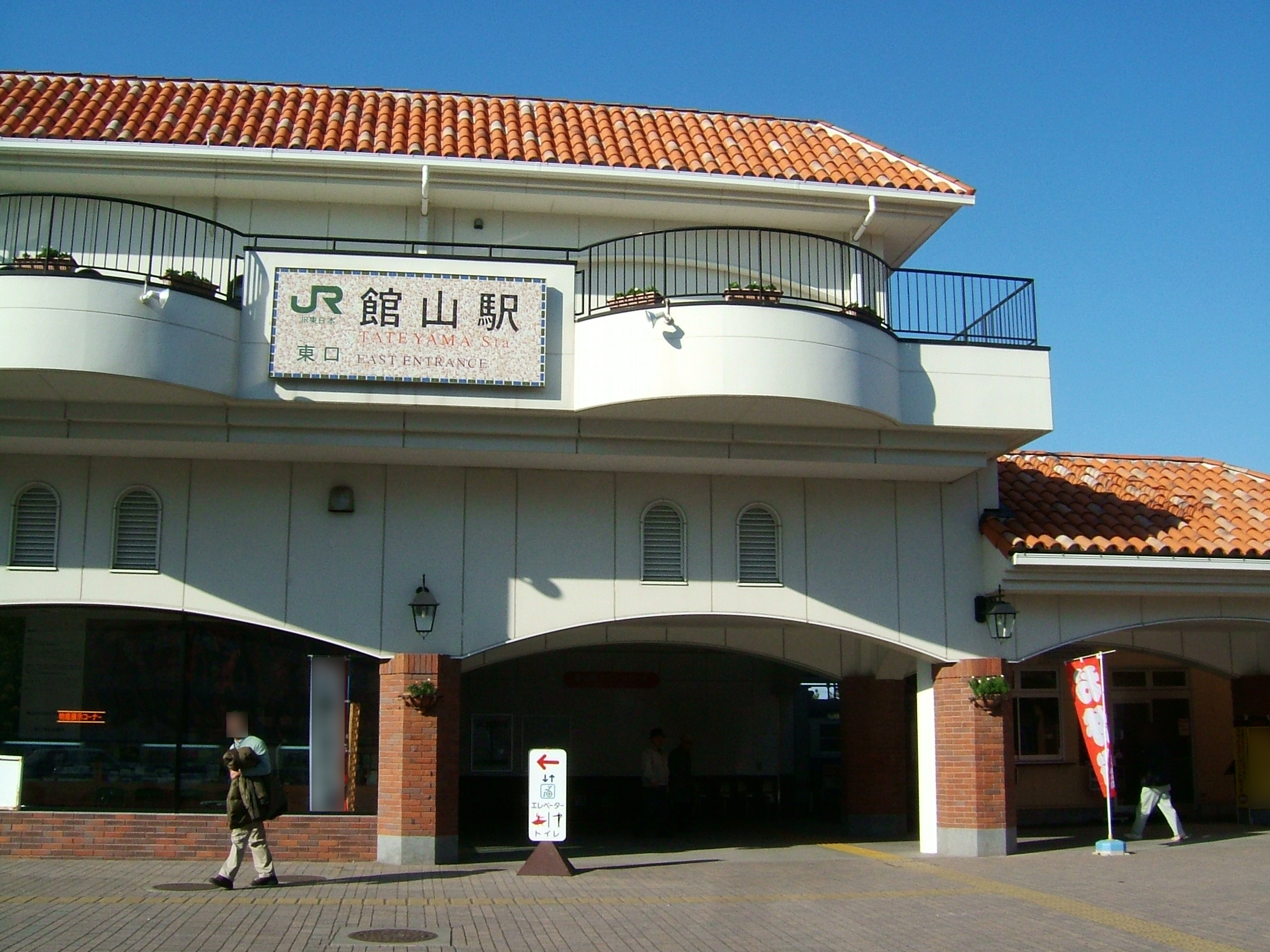 The entrance to Tateyama Station (JR East Uchibo Line)